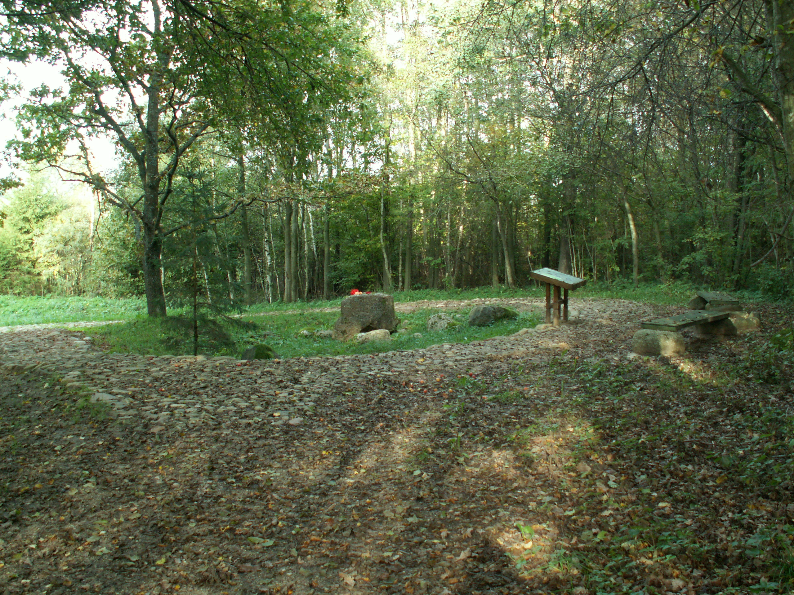 Šilalė stone, Skuodas district, Lithuania